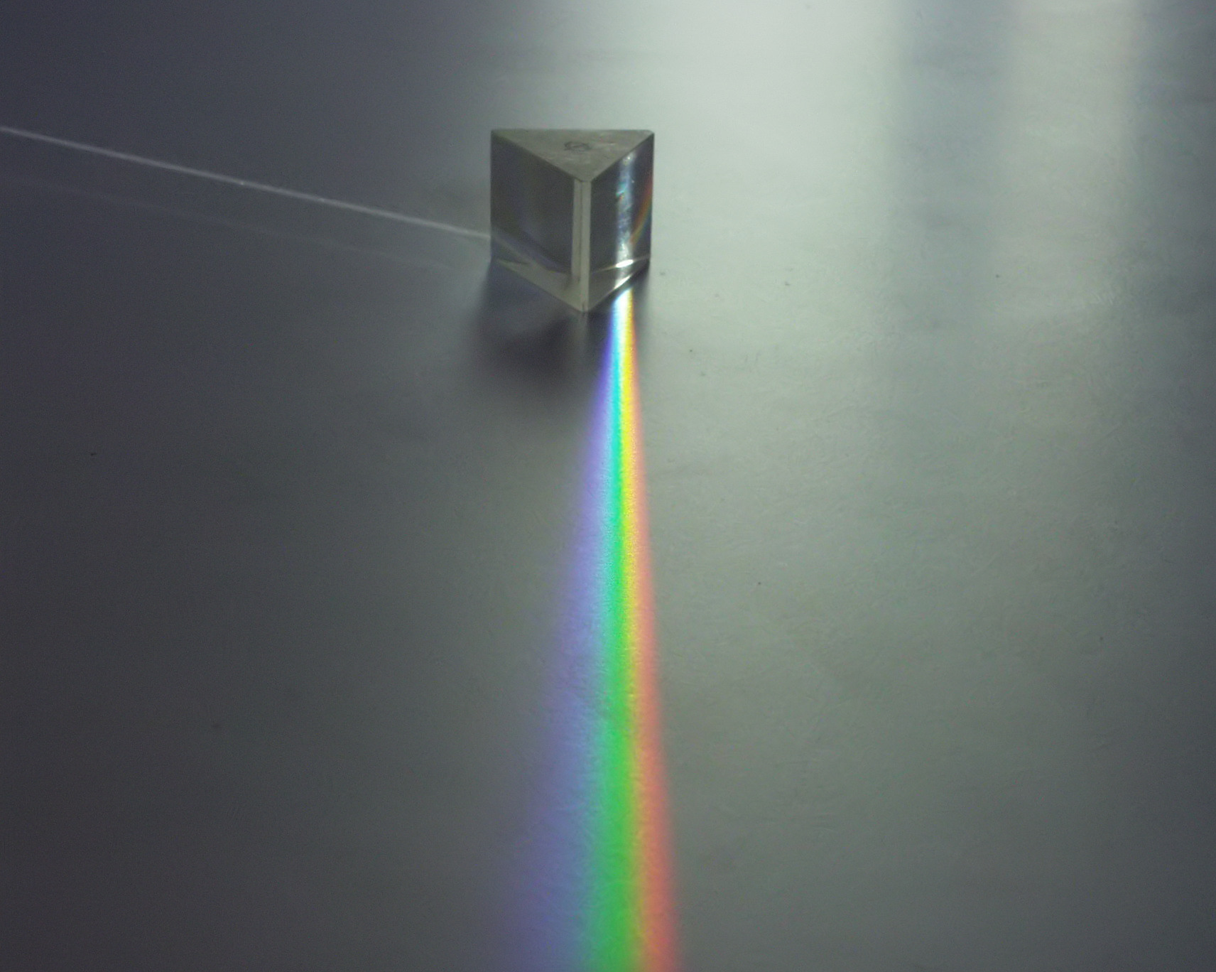 Dispersion on prism (flint glass).